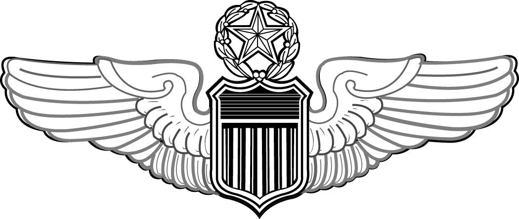 U.S. Air Force Command Pilot badge (see Command pilot)